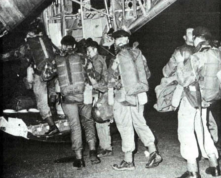 Picture is of the Belgian paratroopers preparing for a hostage rescue operation on Stanleyville in what is now the Democratic Republic of the Congo in late November 1965.